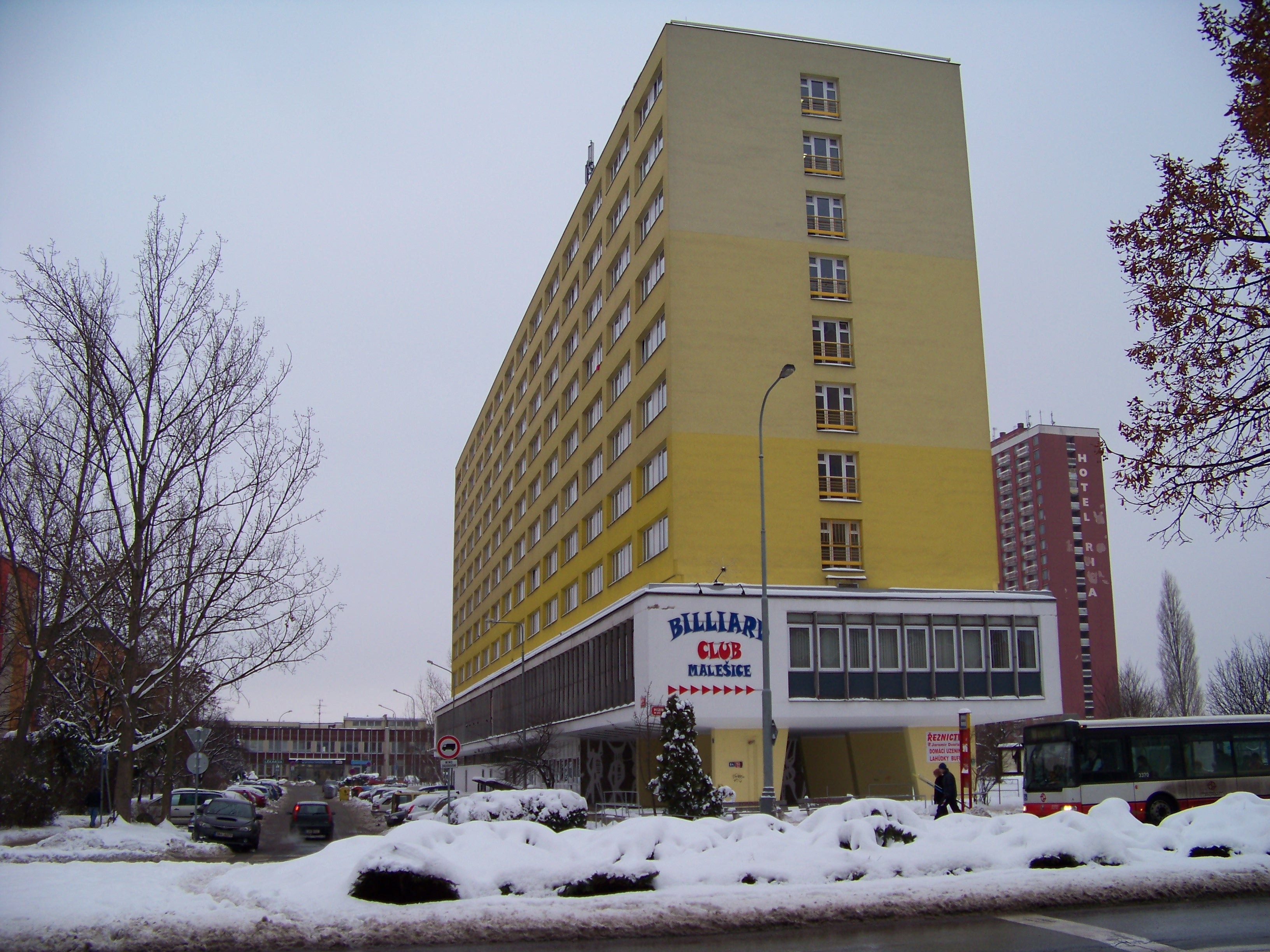 Prague-Malešice, the Czech Republic. Plaňanská Street, a view from Počernická Street.